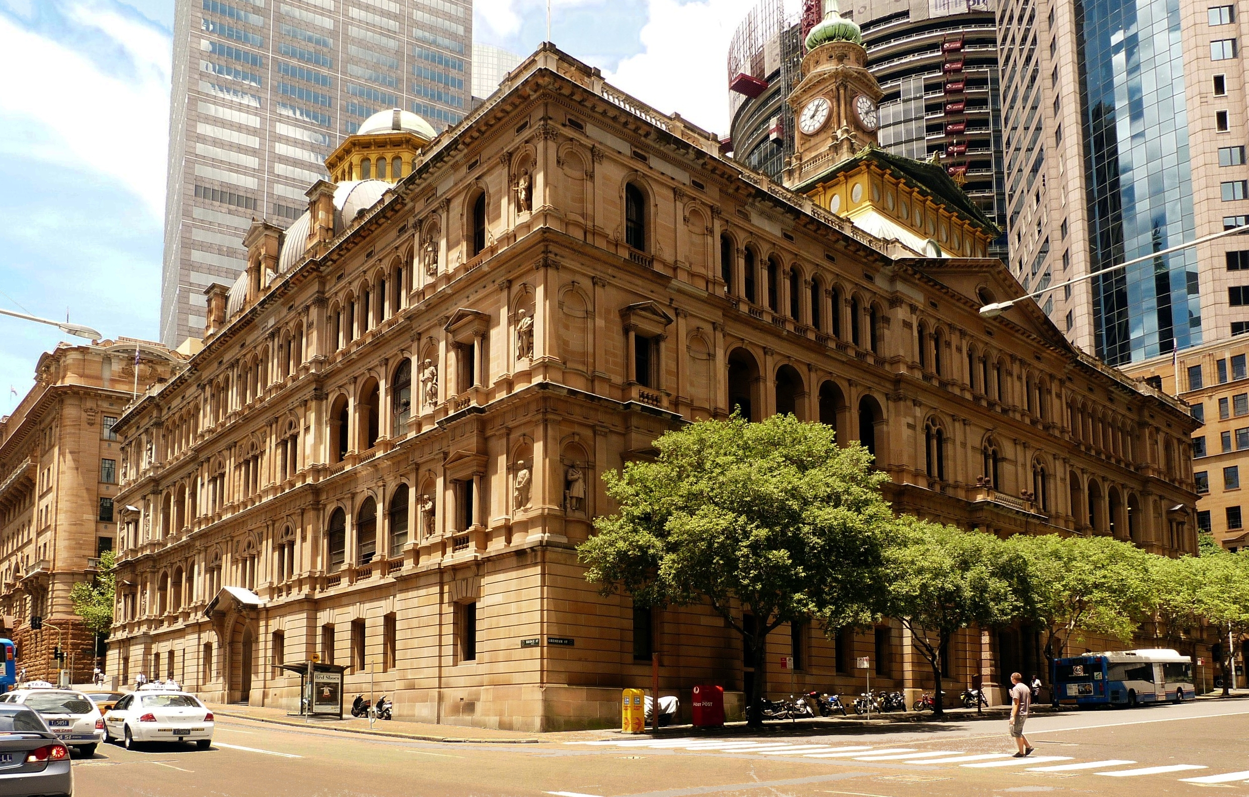 dept of lands, sydney